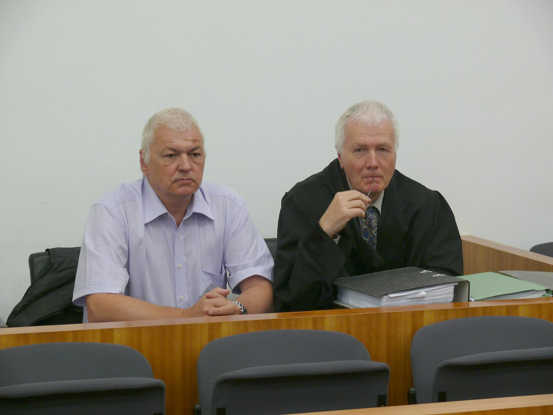 Horst Arnold & Hartmut Lierow , Landgericht Kassel